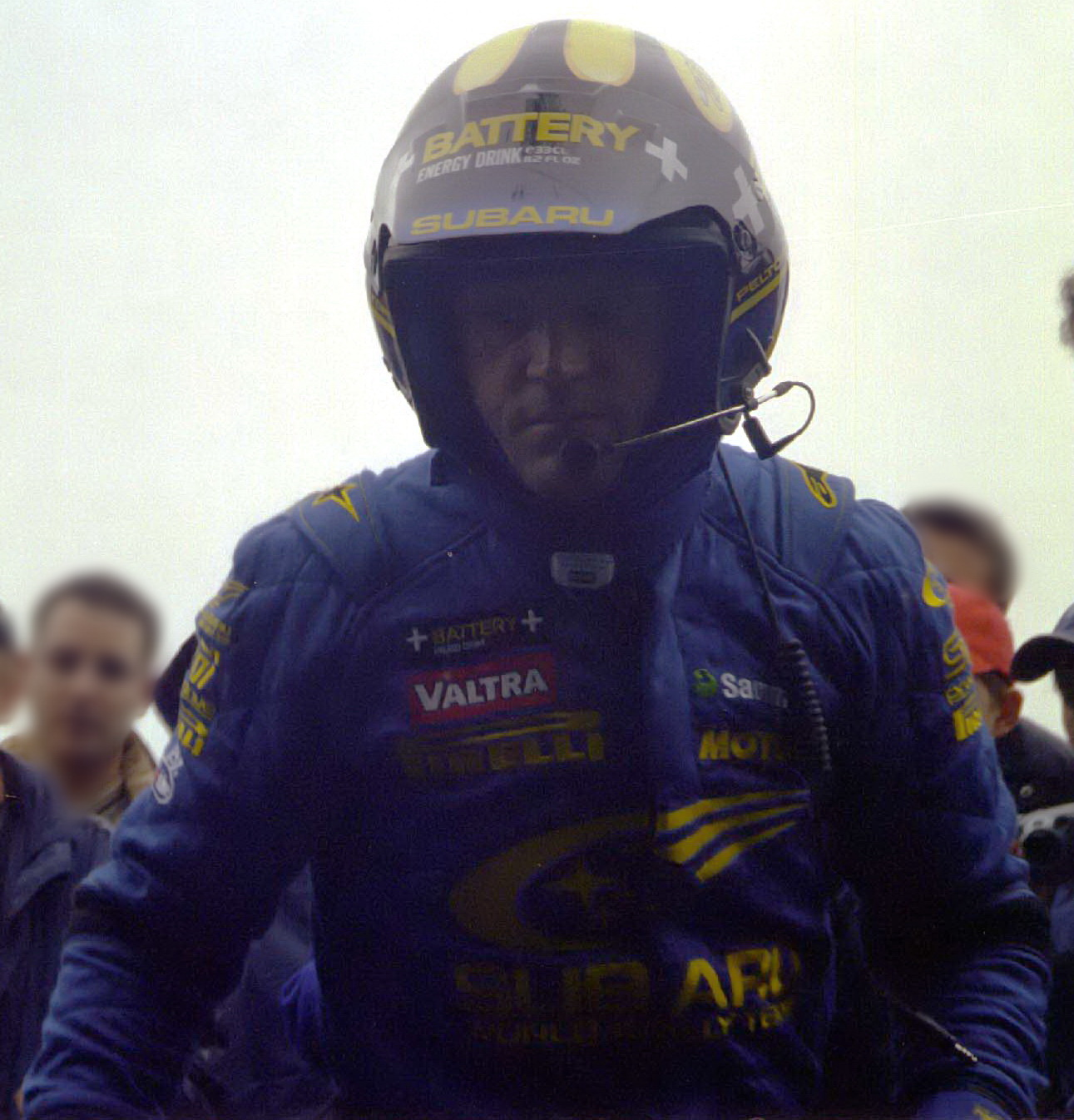 Tommi Mäkinen in Subaru Impreza WRC 2002 during Rallye Deutschland